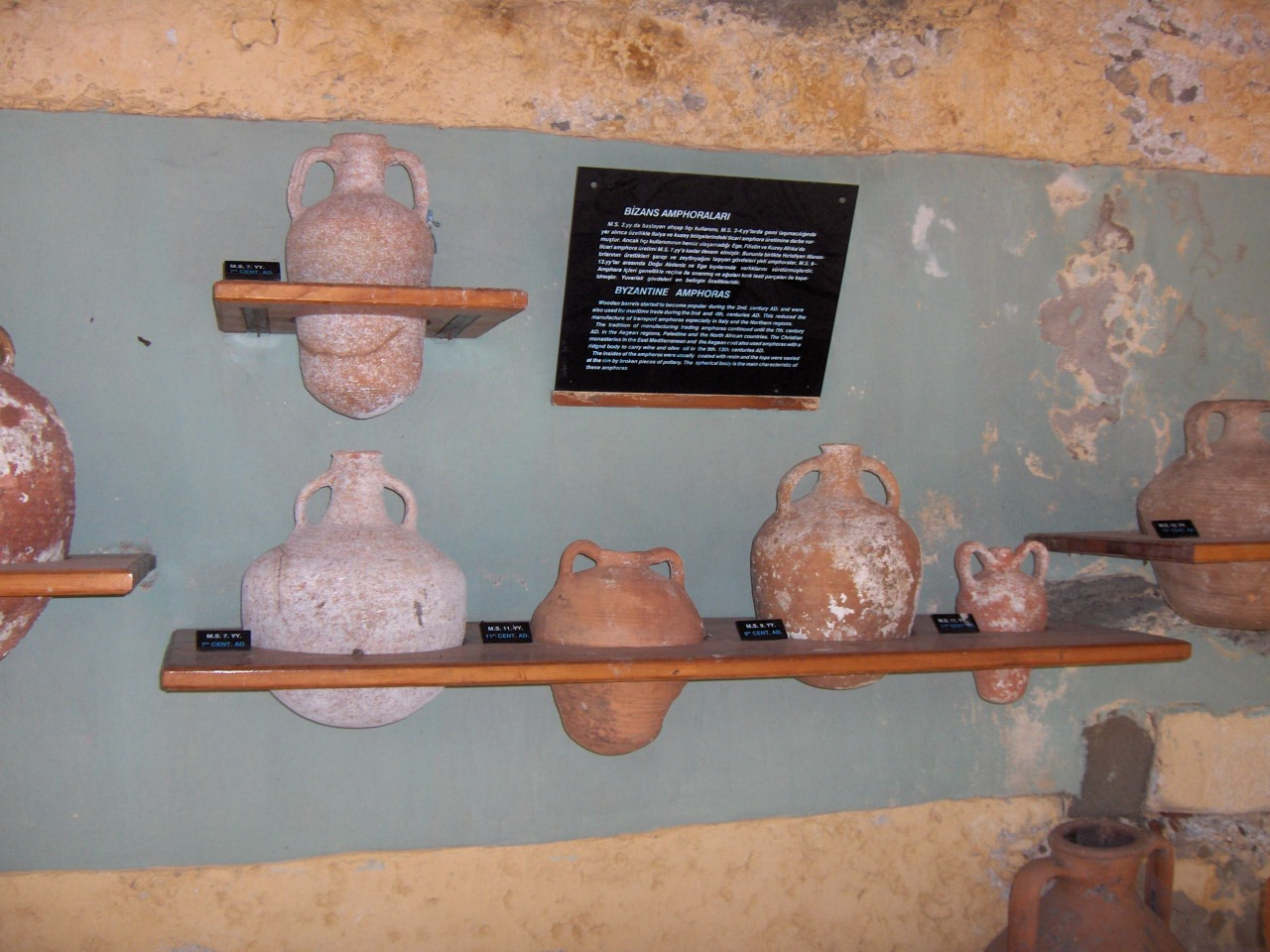 Byzantine amphoras, St. Peter's castle; Bodrum, Turkey